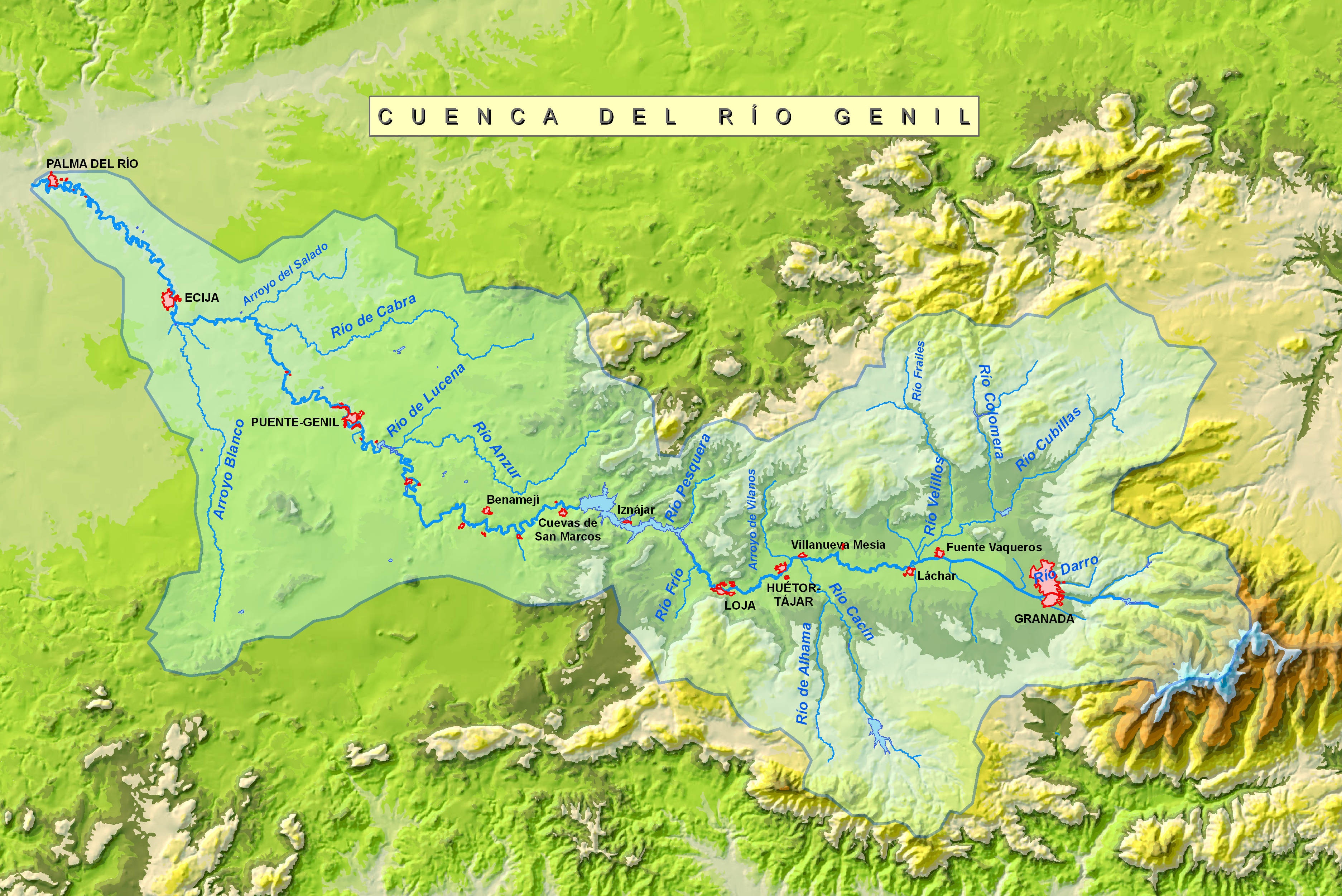 Basin of Genil river